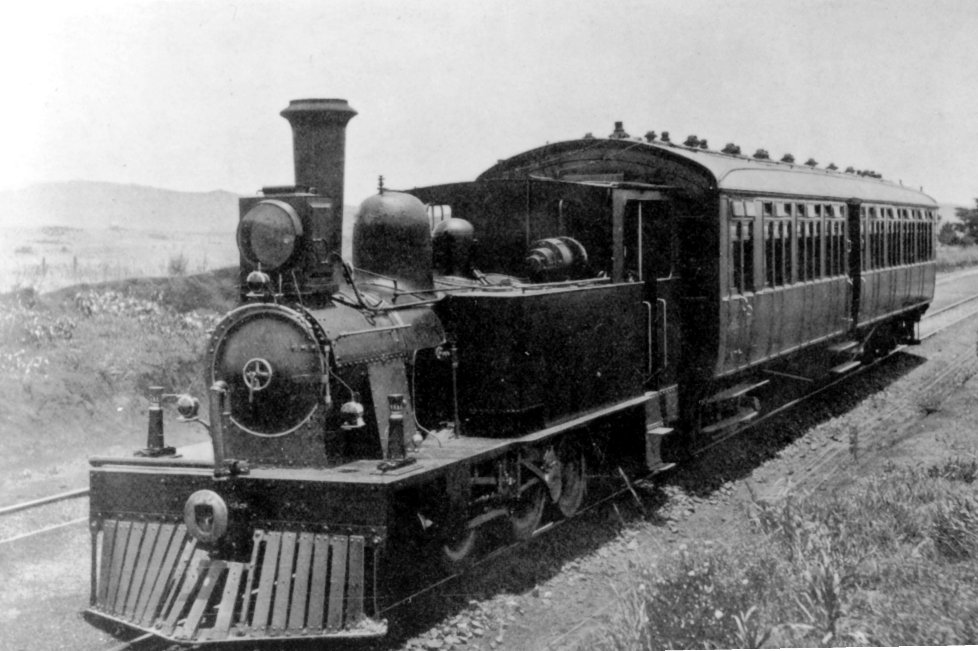 NZASM 19 Tonner (0-4-2T)